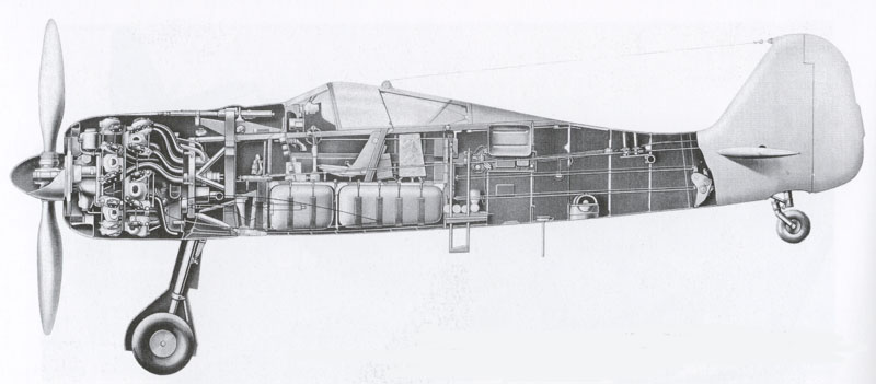 Longitudinal section of a German Focke-Wulf Fw 190A fighter.